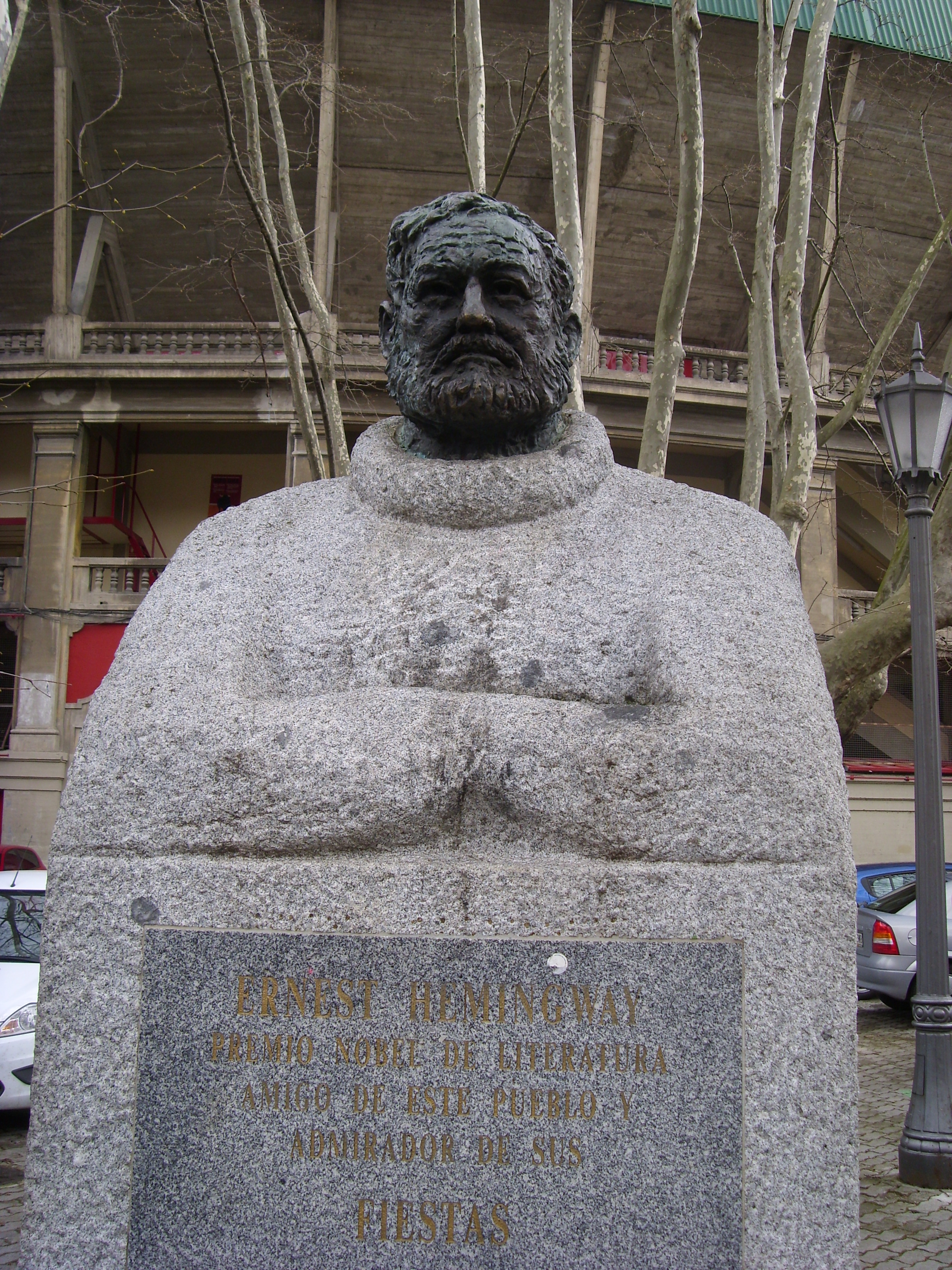 Statue of Ernest Hemingway in Pamplona